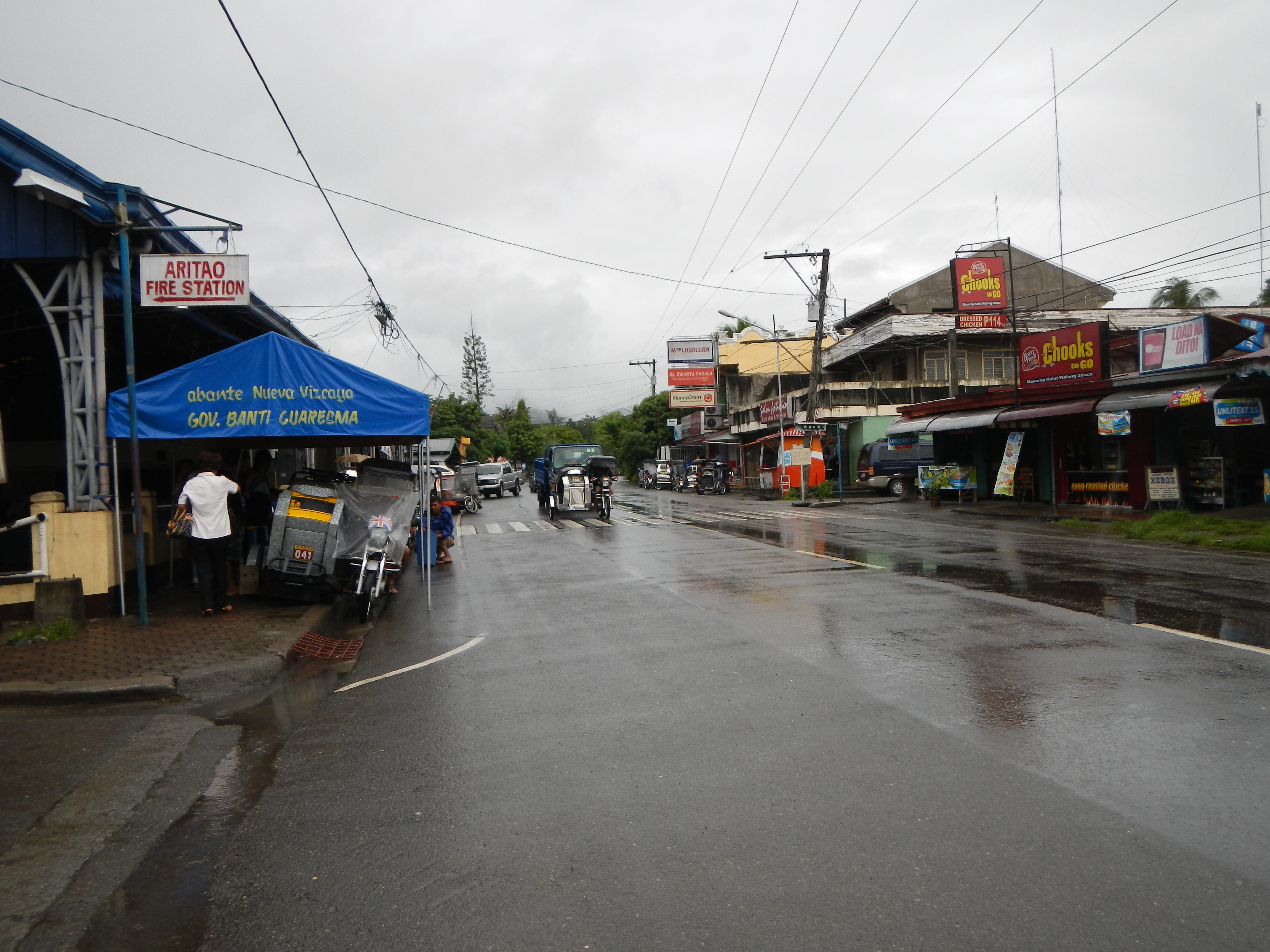 Downtown, highway, Aritao, Nueva Vizcaya[1] 2nd class municipality in the province of Nueva Vizcaya,[2] Philippines, has (latest census) a population of 34,206 people in 6,276 households.2013 Election Website [3] Land Area: 402.65 km² ZIP Code: 3704 politically subdivided into 22 barangays: Coordin ates: 16°14'14"N 120°59'51"E Battle of Kirang Pass 1945.